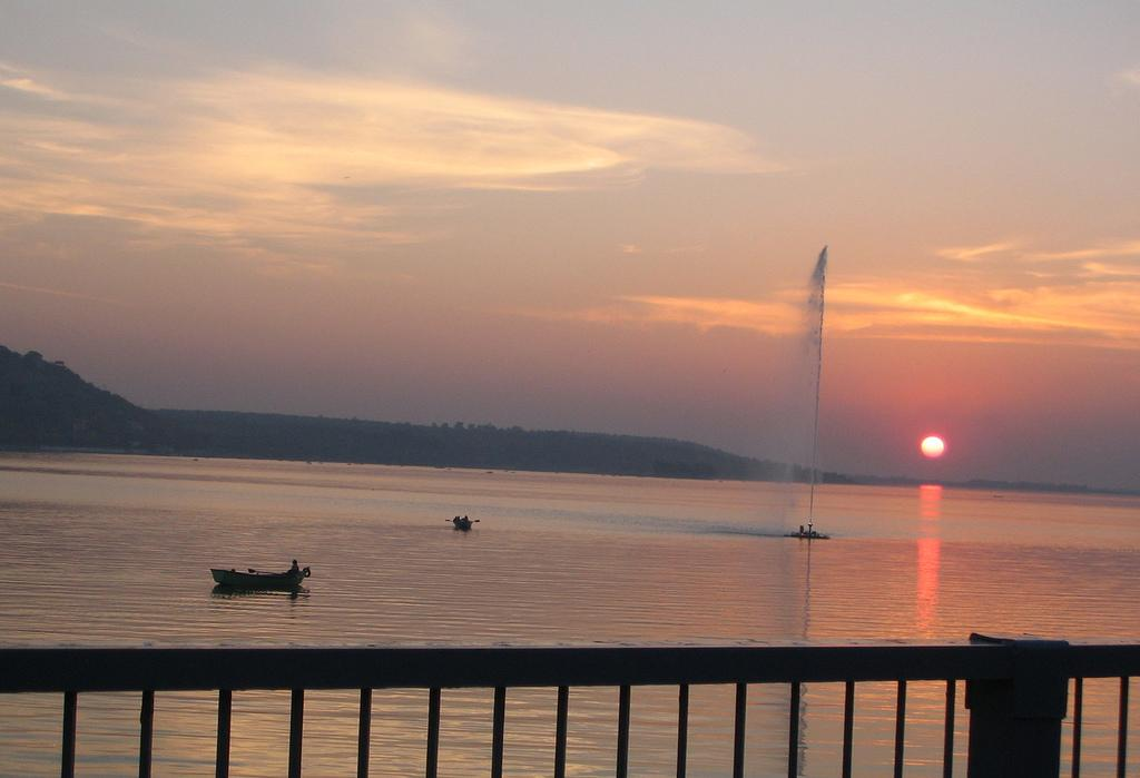 Bada Talaab from VIP road